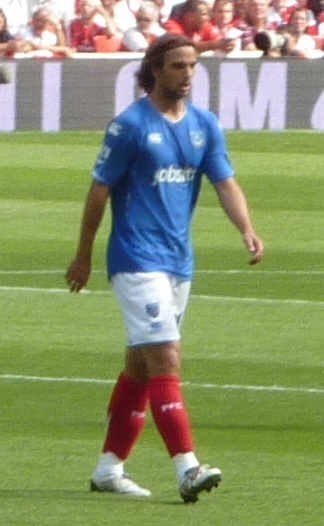 Niko Kranjčar is a Croatian footballer.